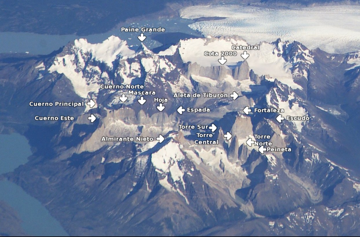 Cordillera del Paine, Chile. Cropped from original image and with annotations.